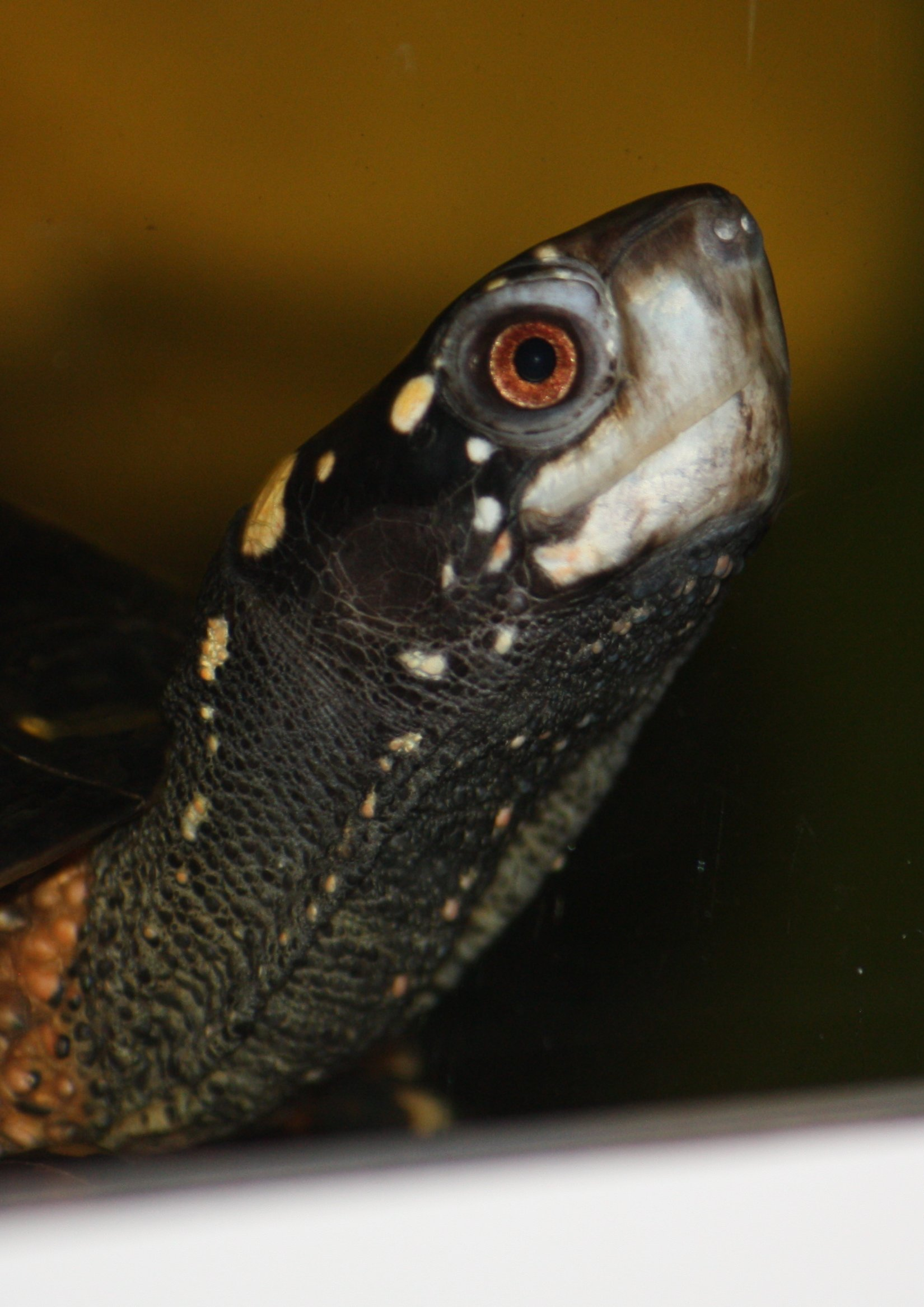 Spotted Turtle Clemmys guttata at the Louisville Zoo